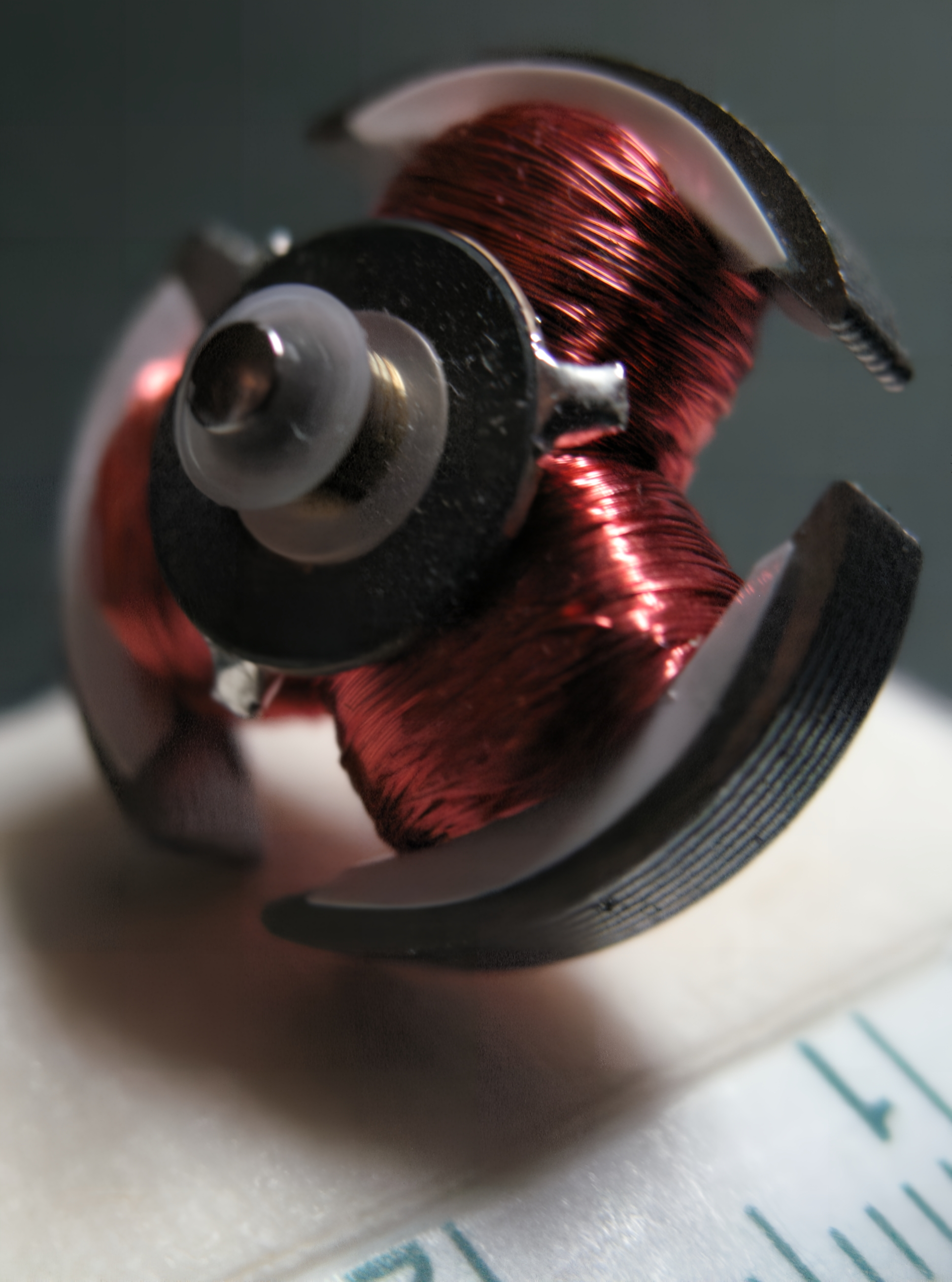 Close-up view of 3-pole rotor on a ruler